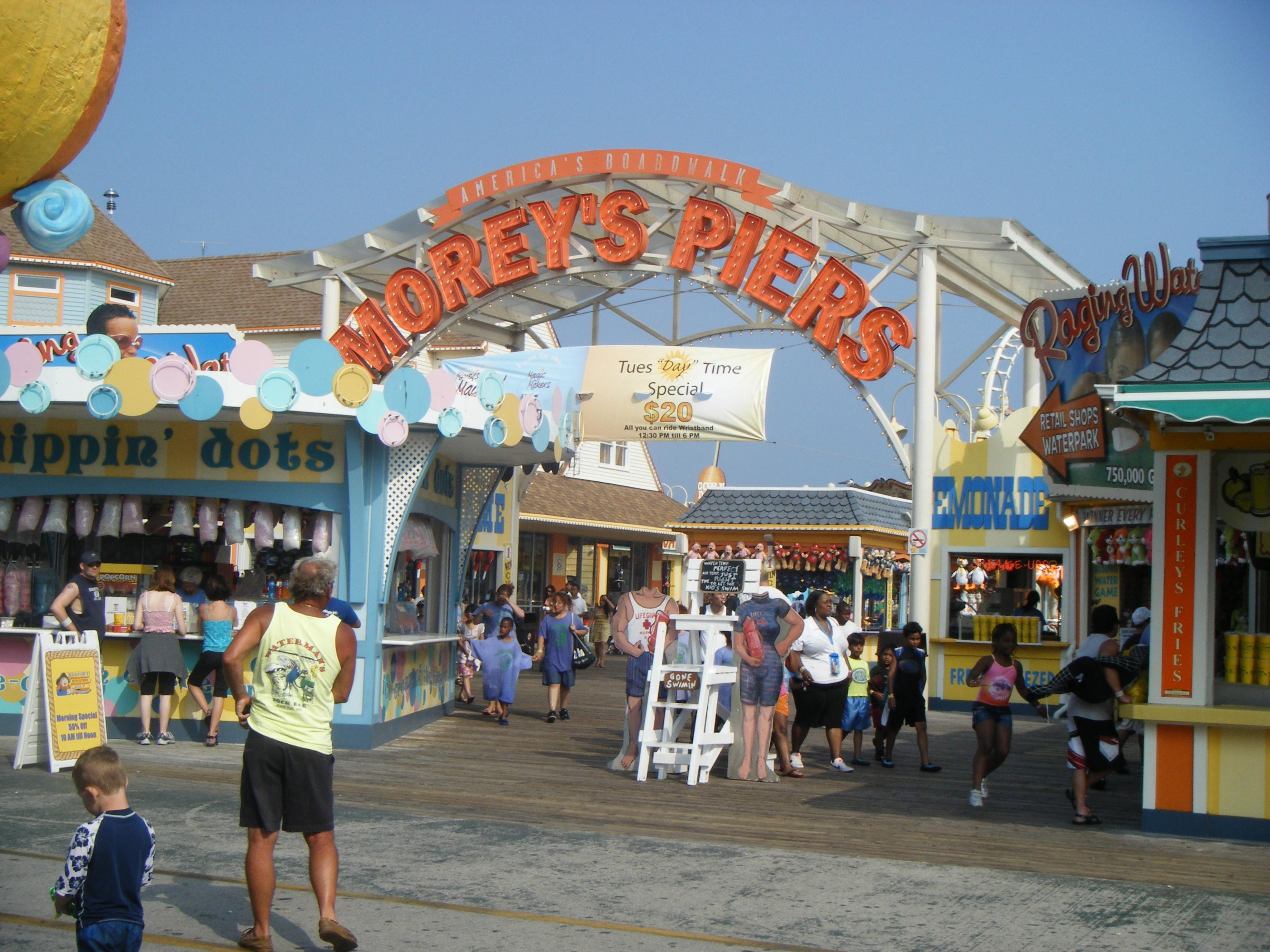 Entrance to Mariner's Landing amusement pier in Wildwood, New Jersey